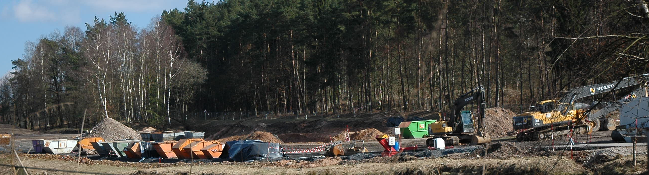 Acerbity resin waste dump near Glosberg